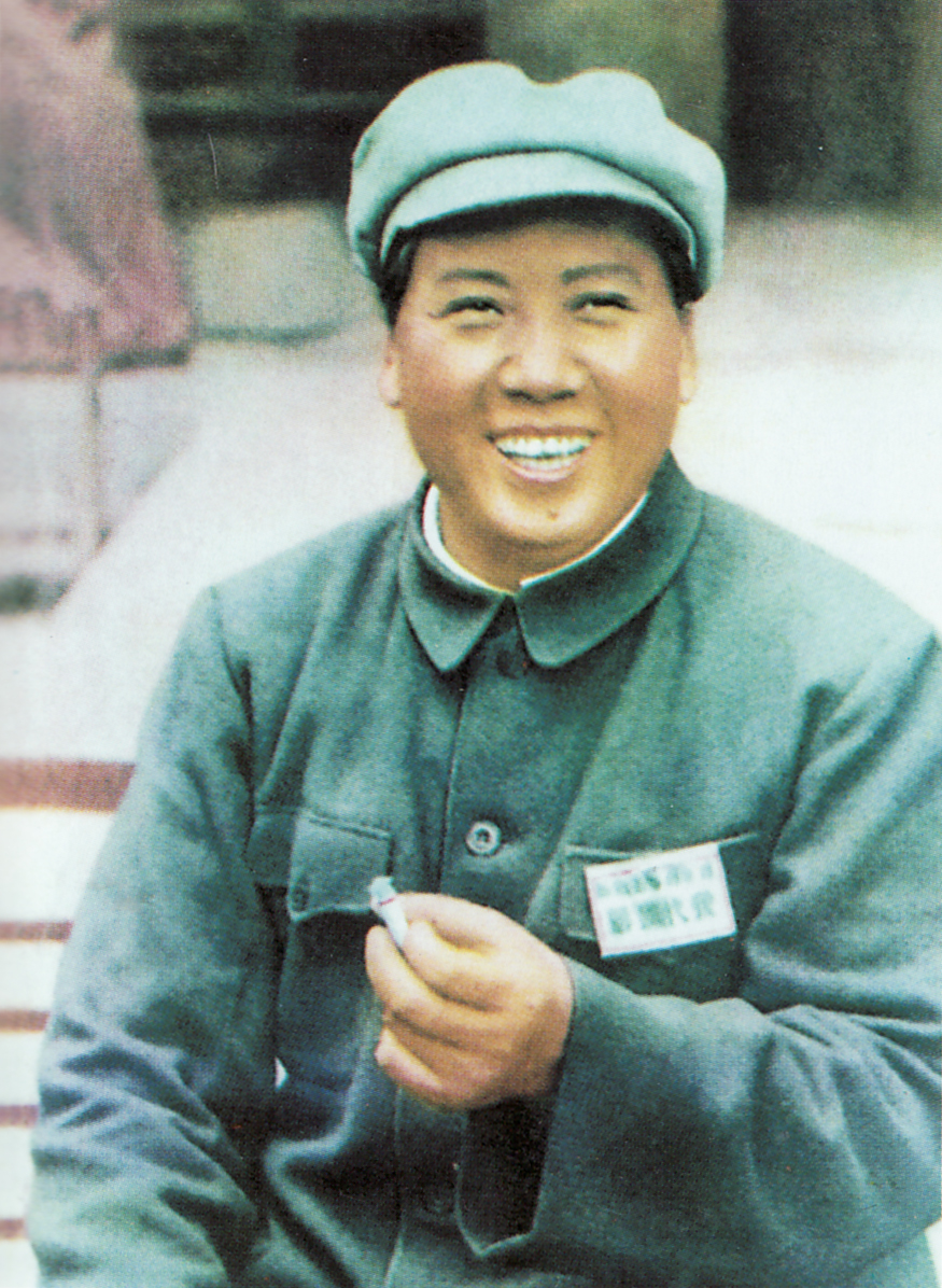 photo of Mao Zedong with a cap, published in "Quotations from Chairman Mao Tse-Tung